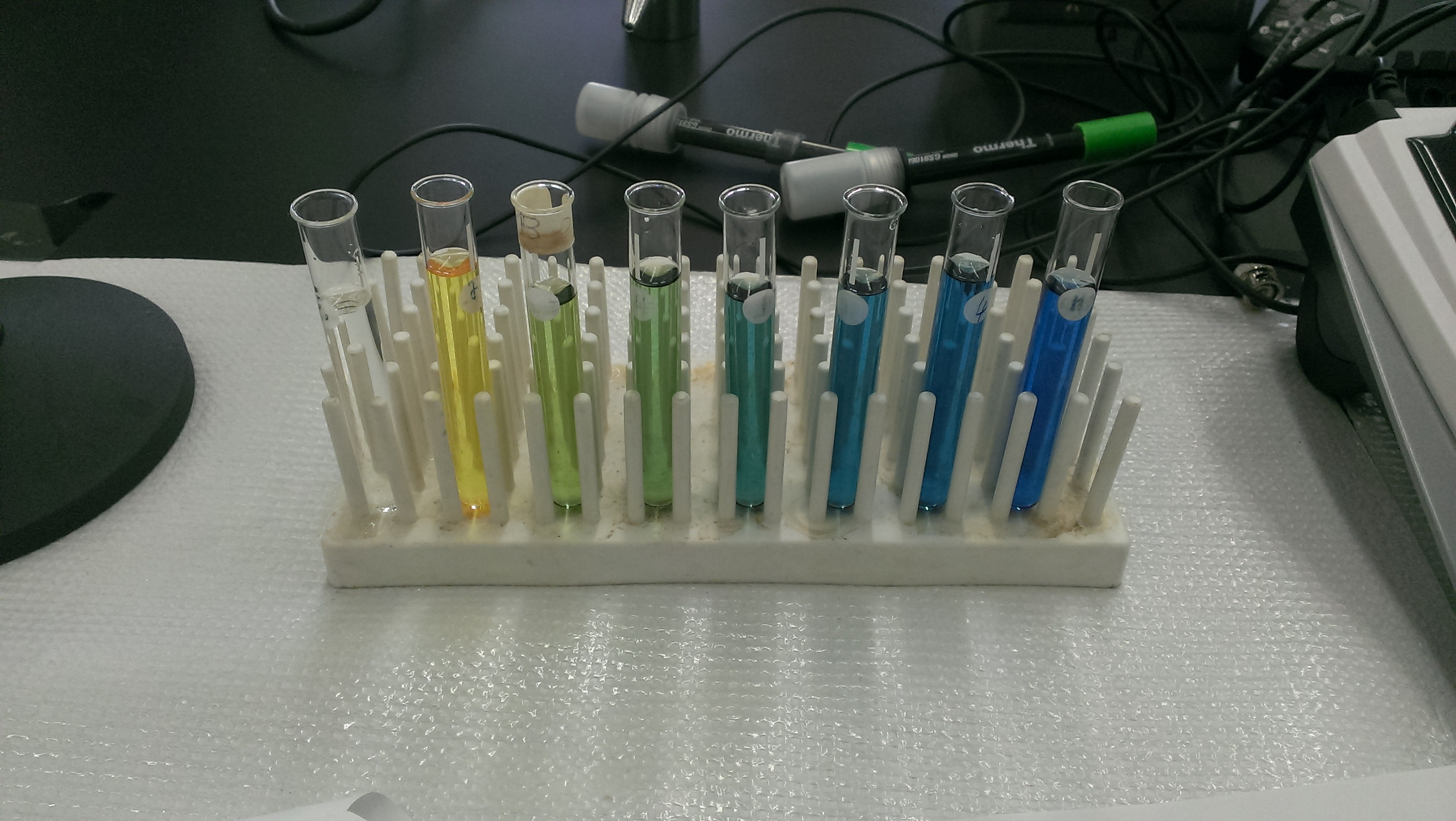 The different colors of bromothymol blue. From left to right: blank, pH 4, 6.2, 6.6, 7.2, 7.5, 8, and 12